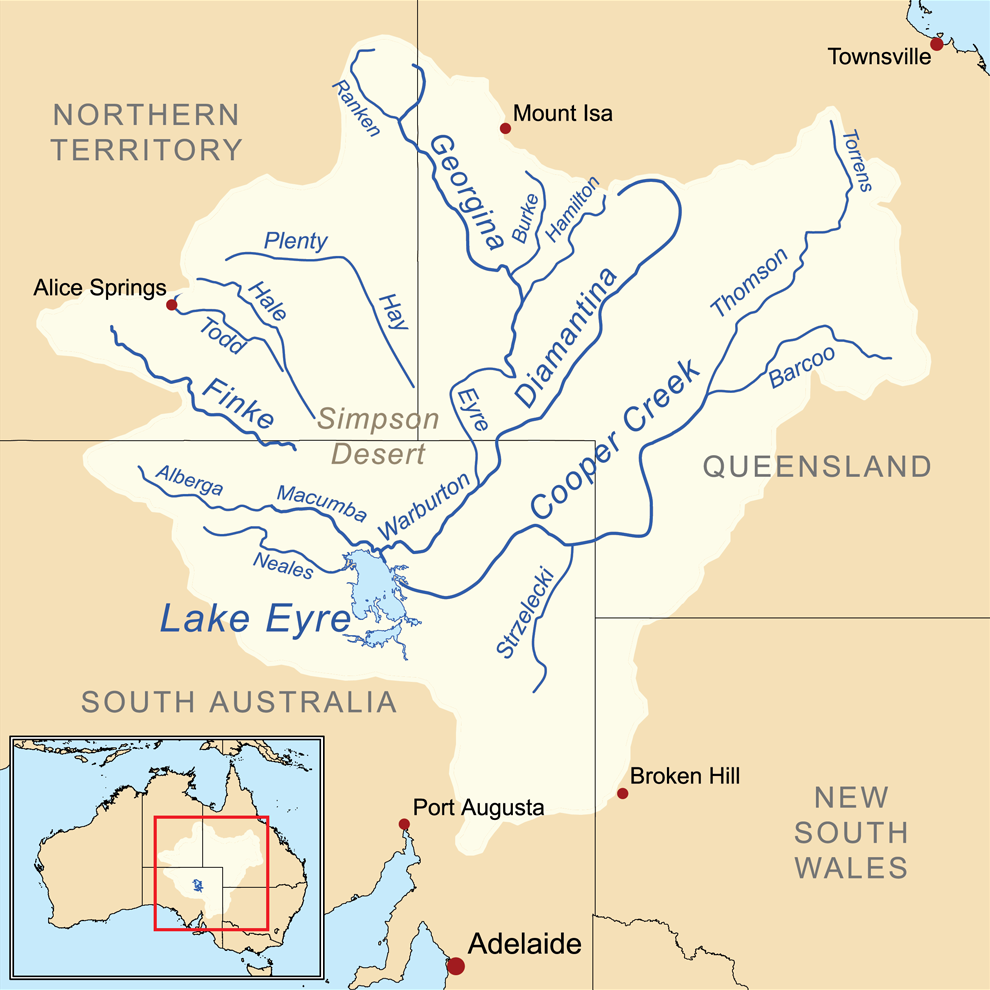 This is a map of the Lake Eyre drainage basin including the major rivers. Note that the river courses shown are usually dry.